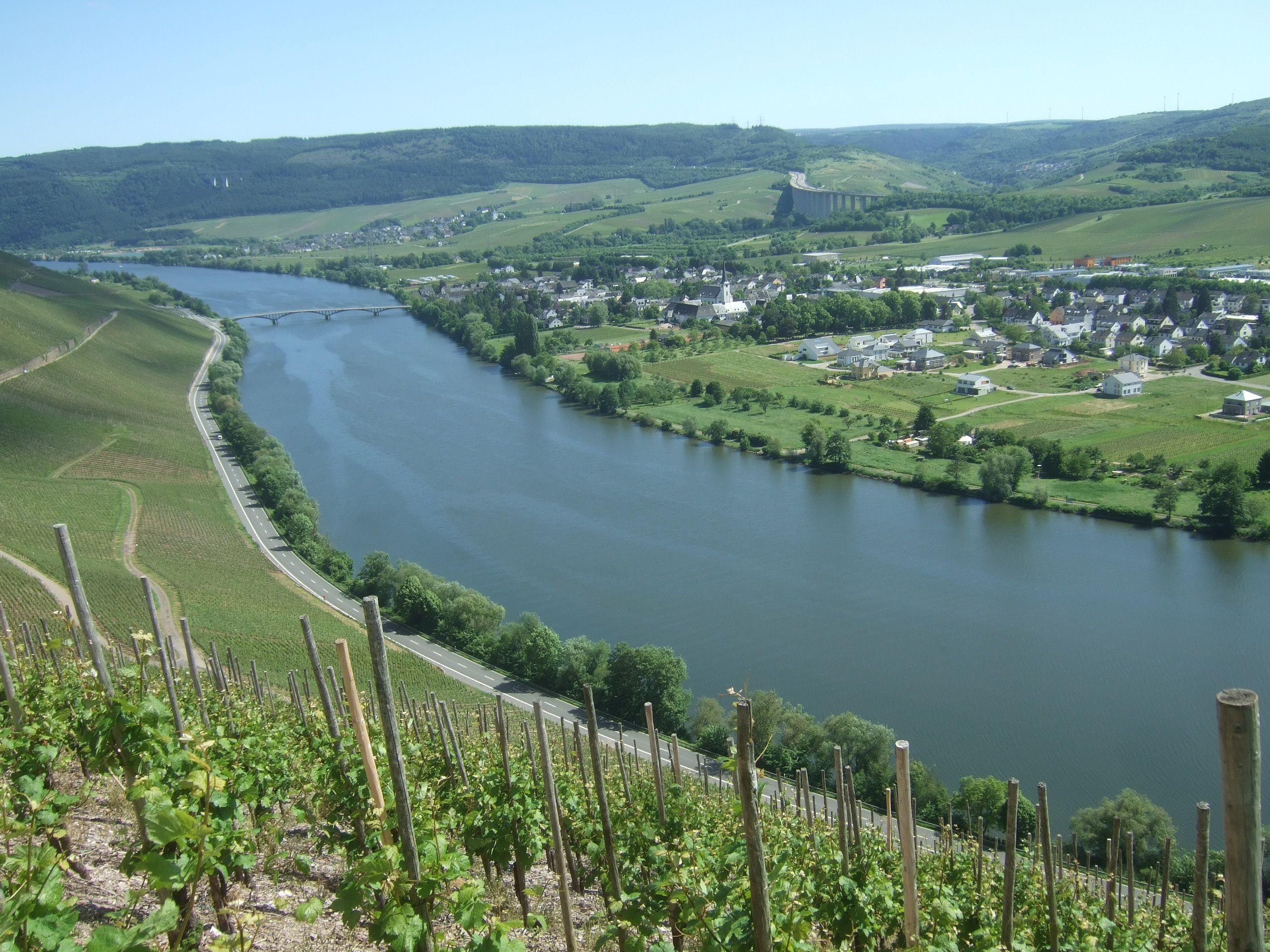 Mosel bei Longuich